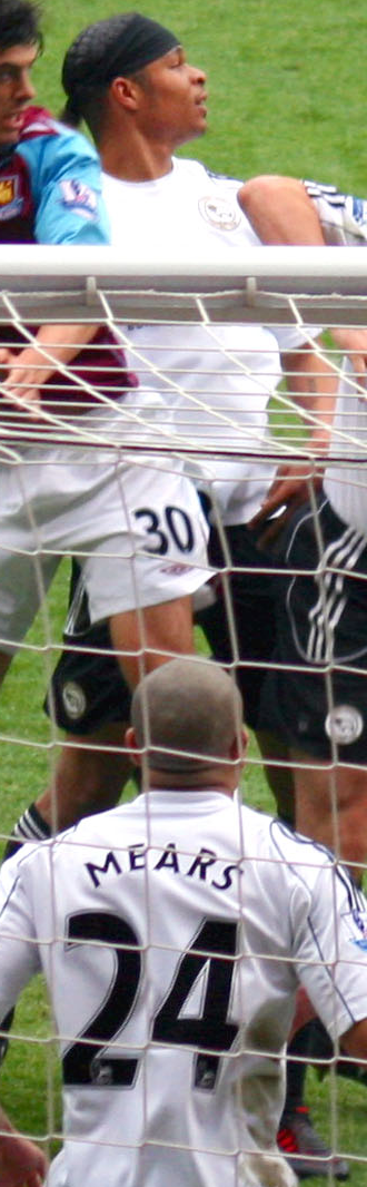 Dean Leacock. Image cropped from original at flickr.